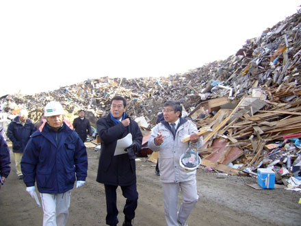 Katsuhiko Yokomitsu, Senior Vice-Minister of the Environment, inspected the rubble collection location in Japan on December, 2011.